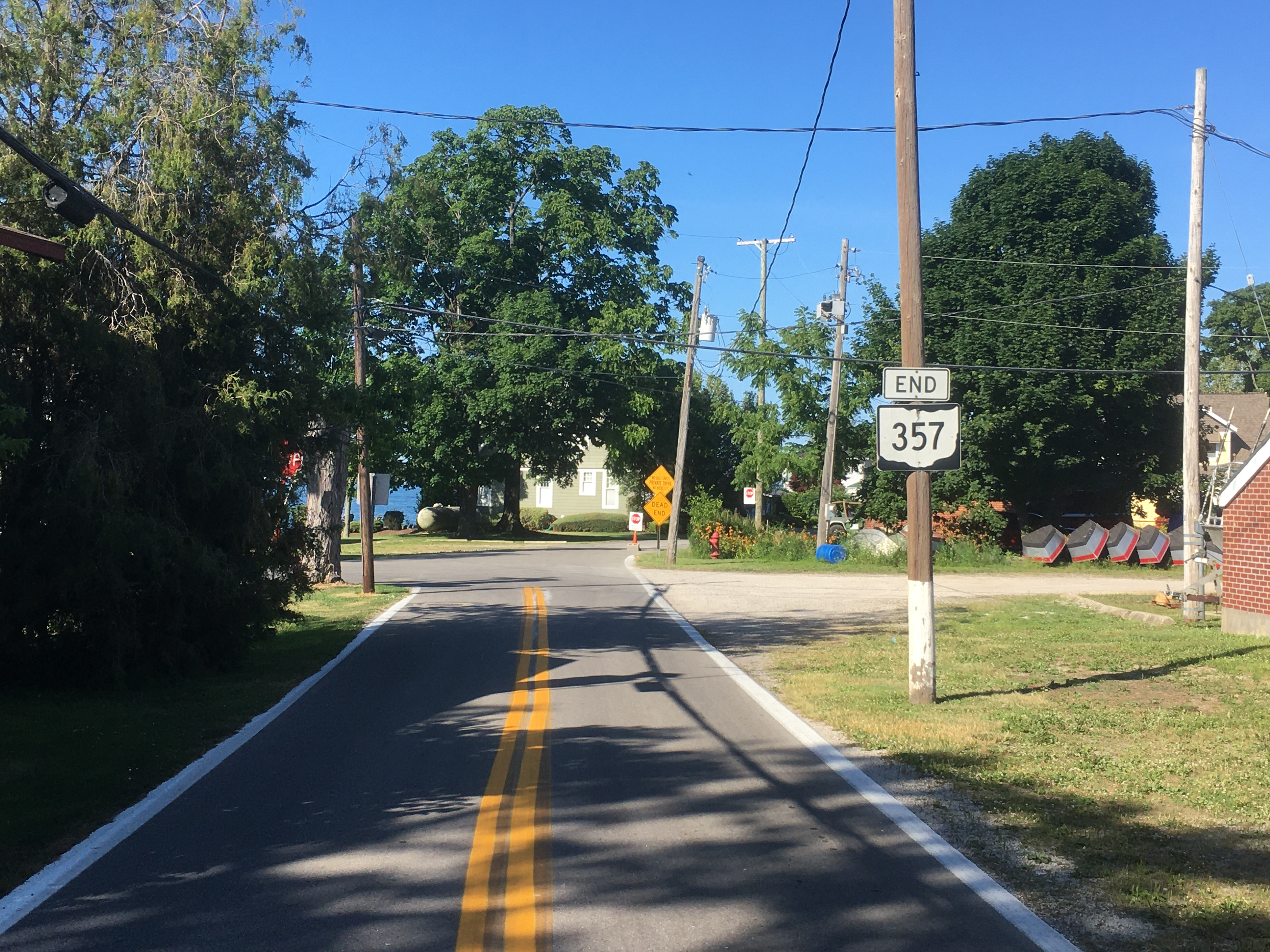 Ohio State Route 357 West Terminal